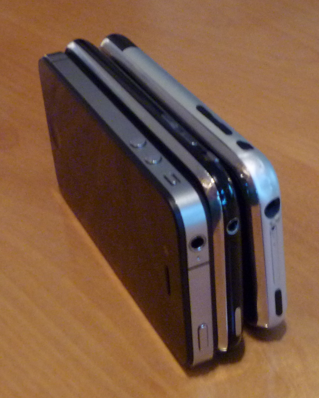 Left to right: iPhone 4, iPhone 3G, iPhone.